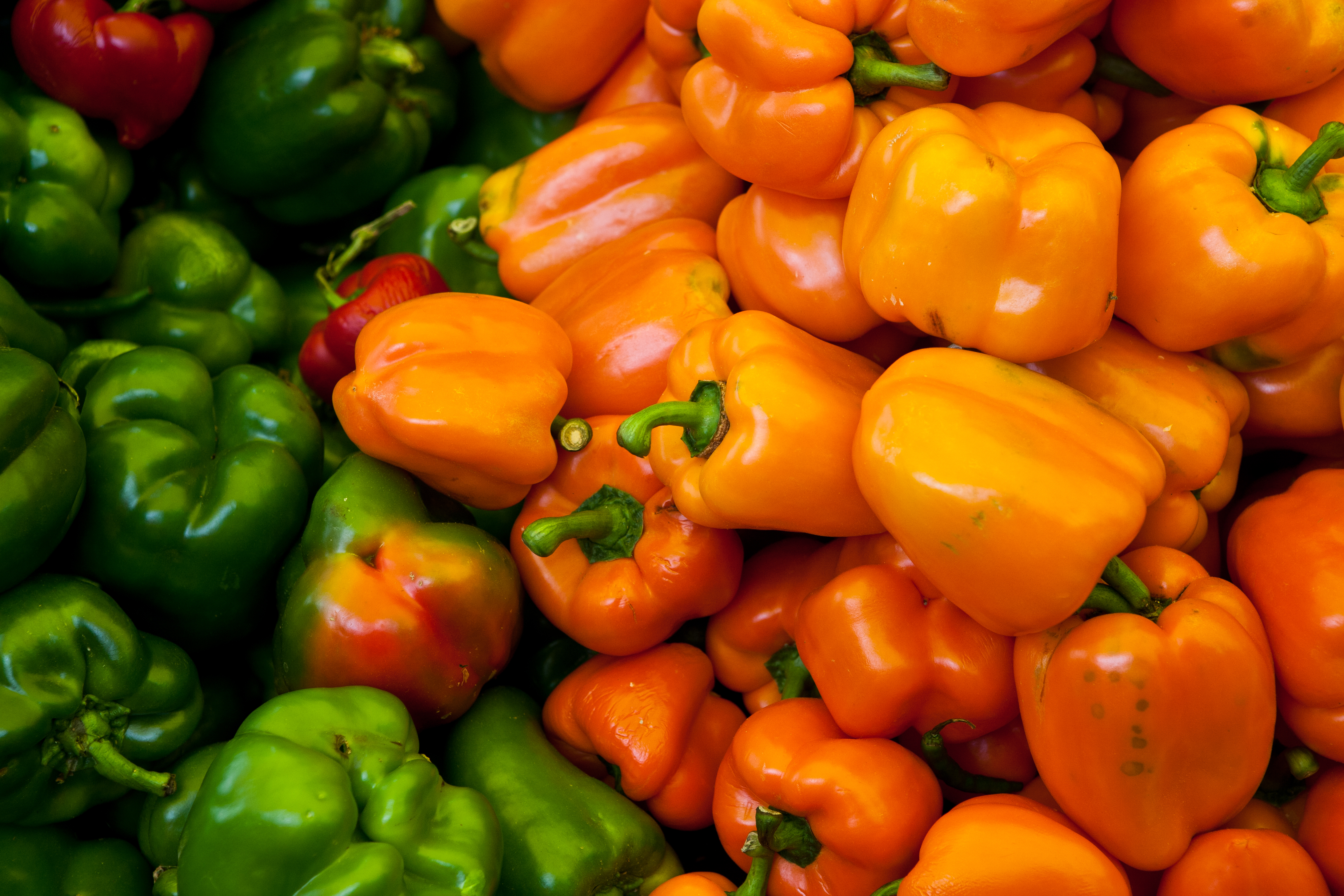 Orange and green peppers in Tenancingo market, Estado de Mexico, a central state.